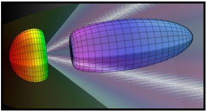 Tachyon visualization. Since a tachyon moves faster than the speed of light, we can not see it approaching. After a tachyon has passed nearby, we would be able to see two images of it, appearing and departing in opposite directions. The black line is the shock wave of Cherenkov radiation, shown only in one moment of time.